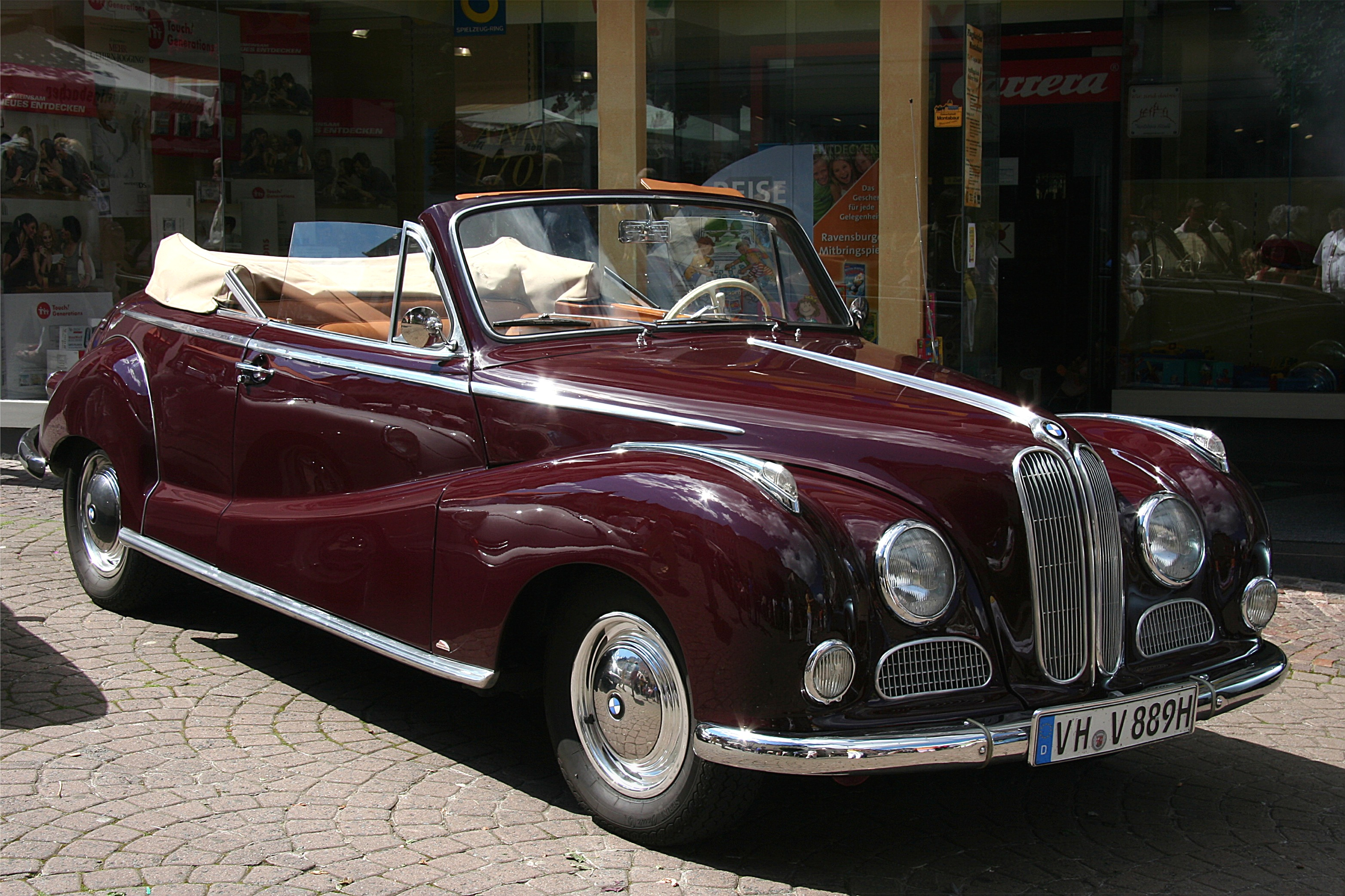 BMW 502 with Baur body in Montabaur, Rhineland-Palatinate, Germany